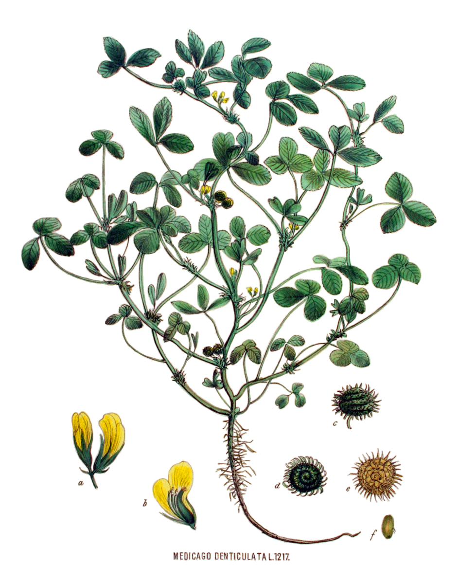 Illustration of Medicago polymorpha L.